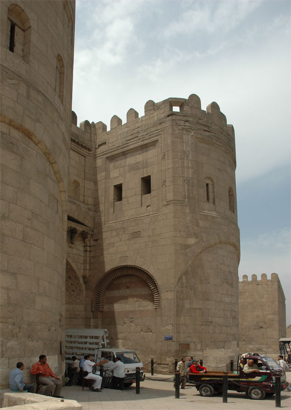 Bab al-Futuh. Cairo. Egypt